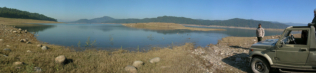 Banks of the Ramganga reservoir in the Dhikala grasslands of Corbett Tiger Reserve.